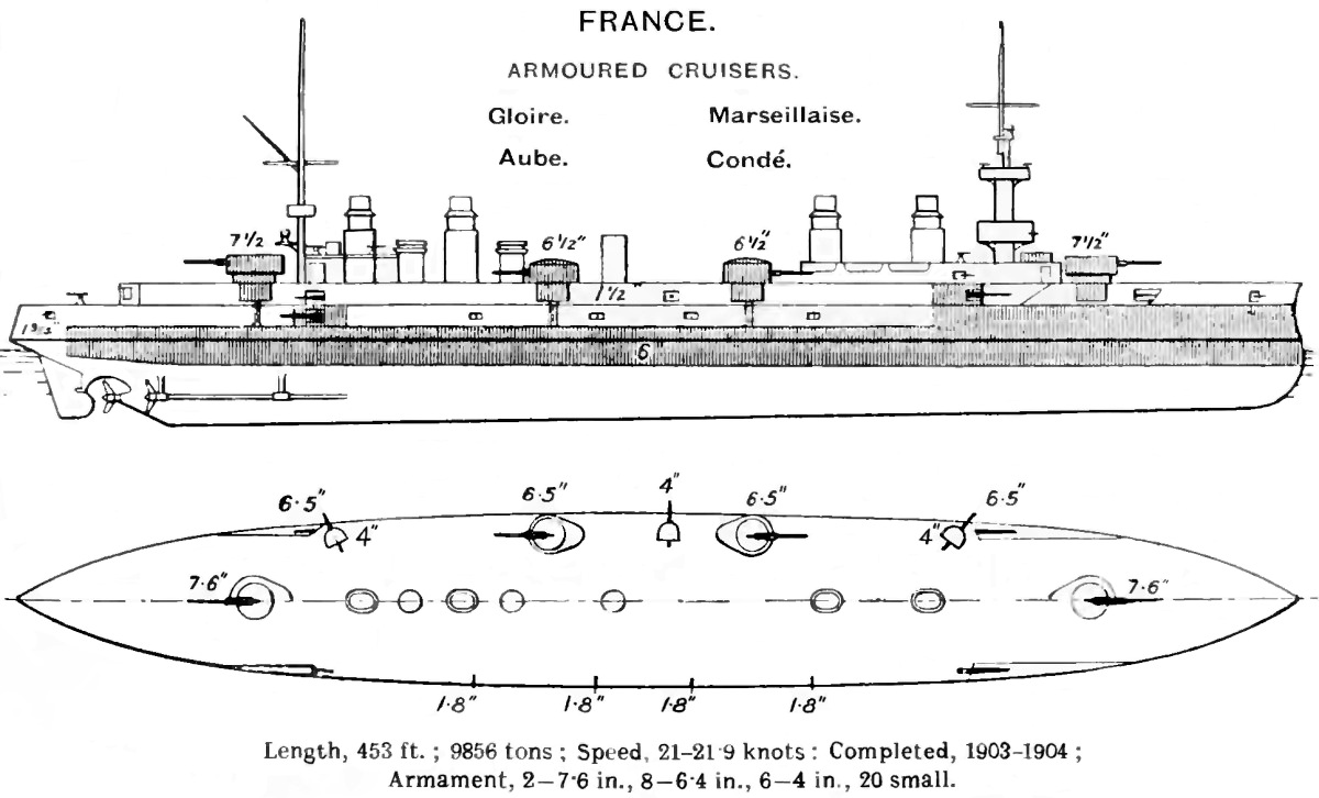 Right elevation and deck plan diagrams depicting French Gloire class armoured cruiser. Numbers on top diagram show armour thickness (shaded areas) in inches. Numbers on bottom diagram show size of guns in inches.